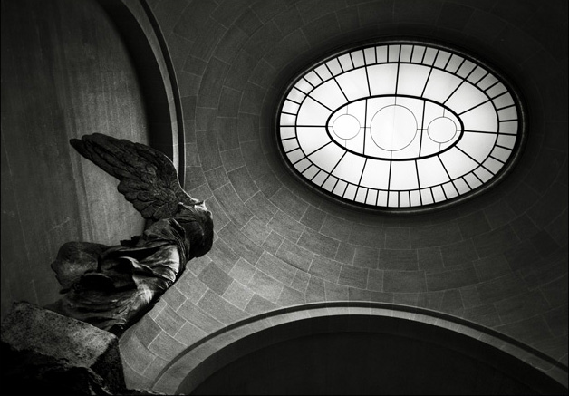 Winged Nike of Samothrace. Parian marble, ca. 190 BC? Found in Samothrace in 1863.